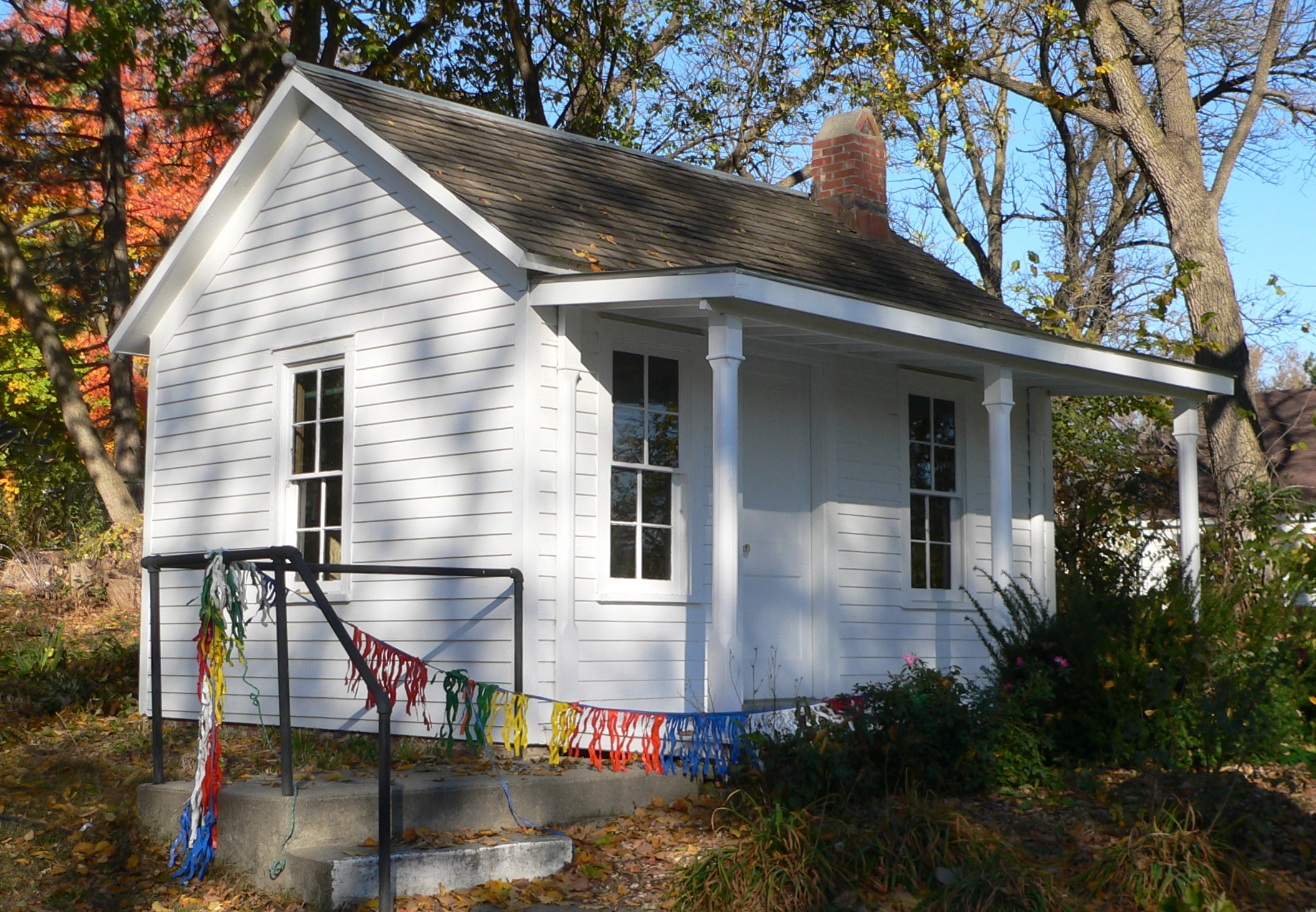 John G. Neihardt study at John G. Neihardt State Historic Site in Bancroft, Nebraska; seen from the southeast. The study is listed in the National Register of Historic Places.